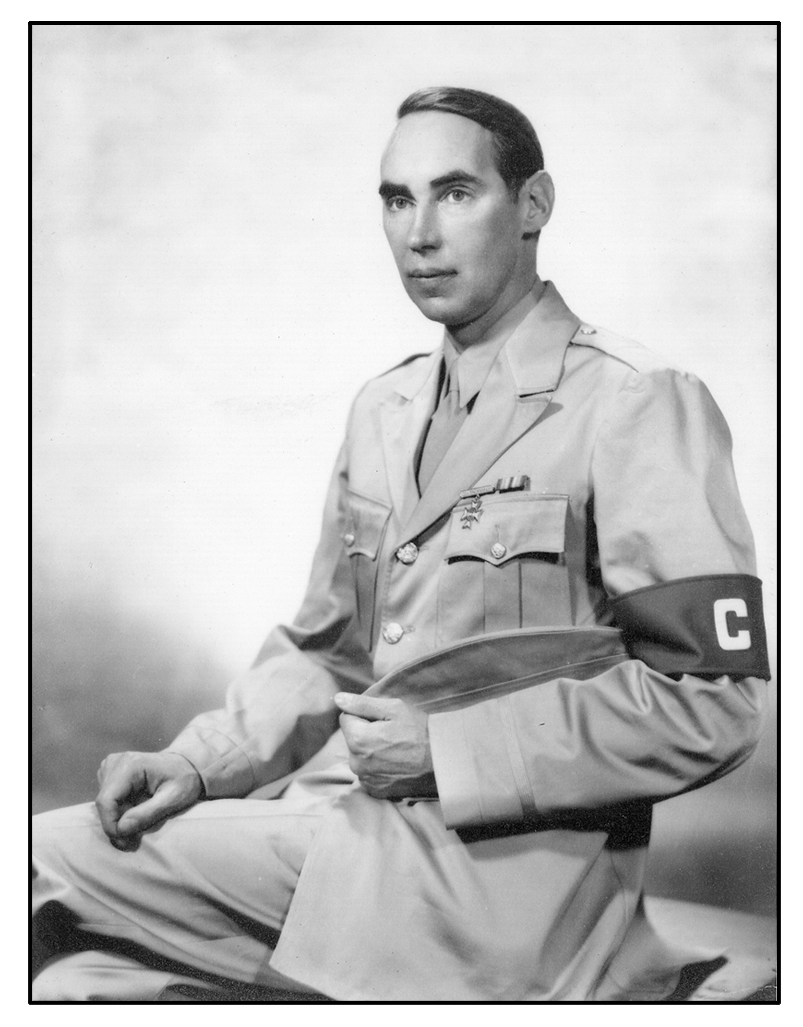 The American author Christopher Grant La Farge in uniform as a war correspondent during World War II.